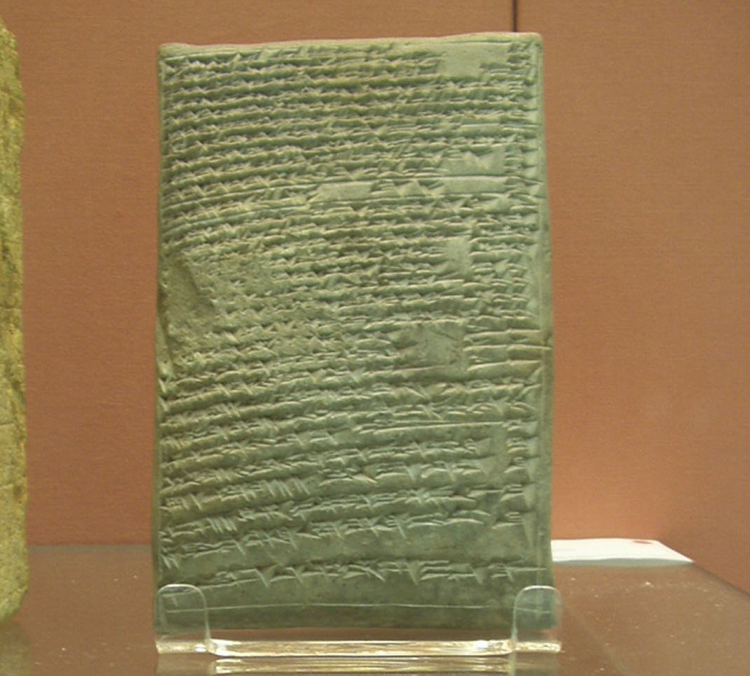 Clay tablet; contract for sale of land imposed by the need to pay a ransom, dated to the first year of Nabu-shuma-libur